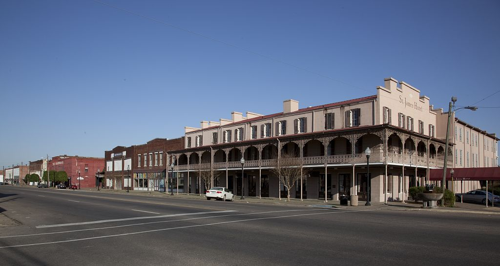 The St. James Hotel, the only surviving hotel in the downtown historic district, Selma, Alabama.